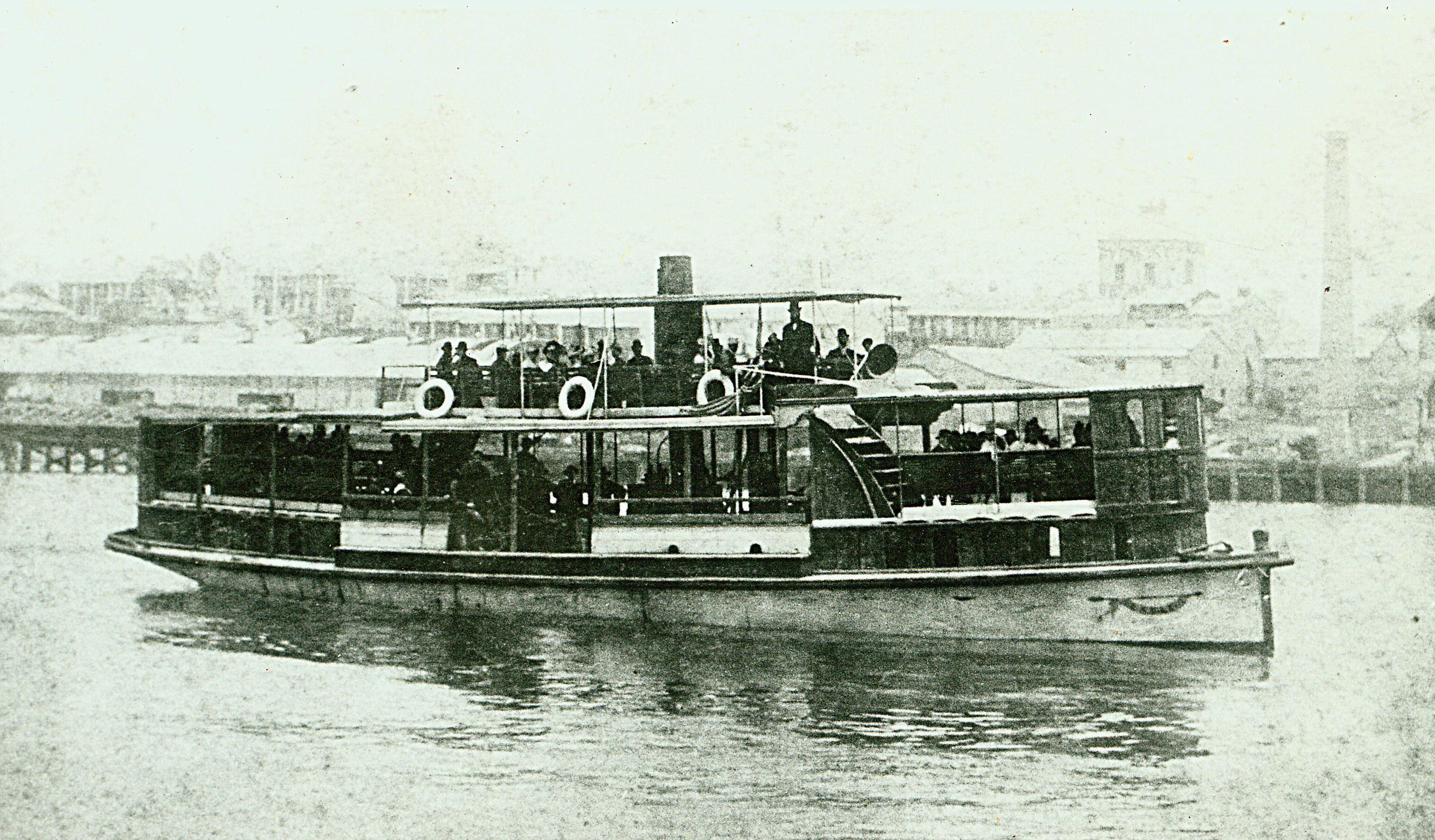 Sydney ferry EAGLE later CYGNET shown as built. Graeme Andrews, Ferry EAGLE as built later CYGNET. (//), [A-00075675]. City of Sydney Archives, accessed 23 May 2020